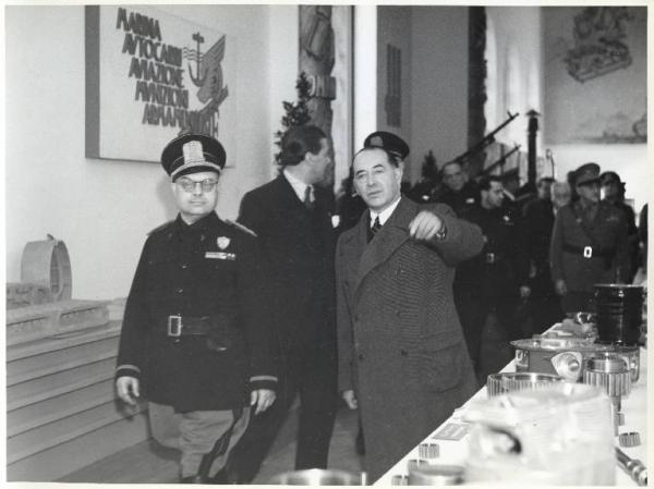 Ermanno Amicucci (1890–1955) (left) – at that time subsecretary in the Italian Ministry of Corporations – during a visit at the 1942 sample fair in Milan.